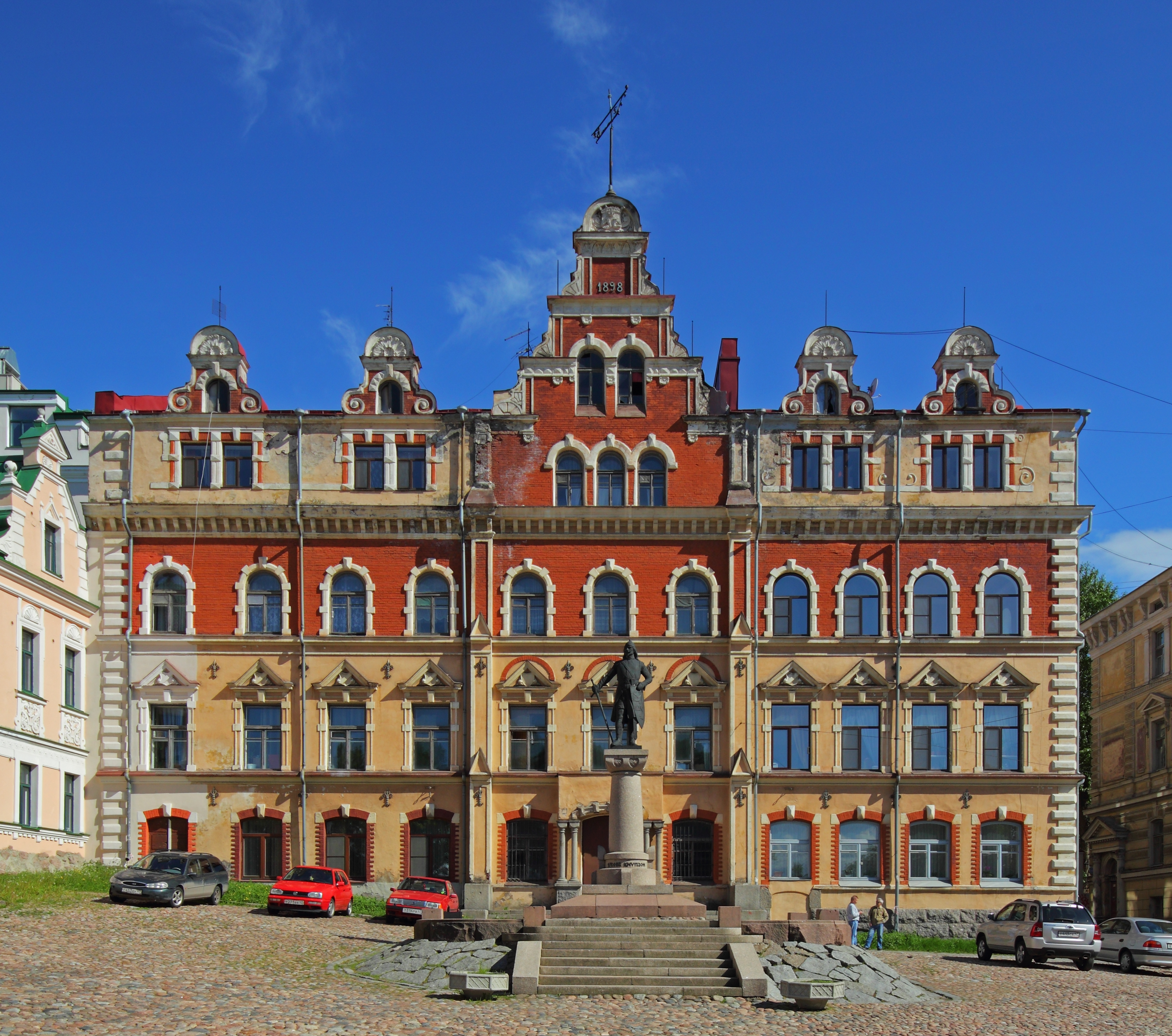 Vyborg (Viipuri), Leningrad Oblast, Russia. Town Museum building.